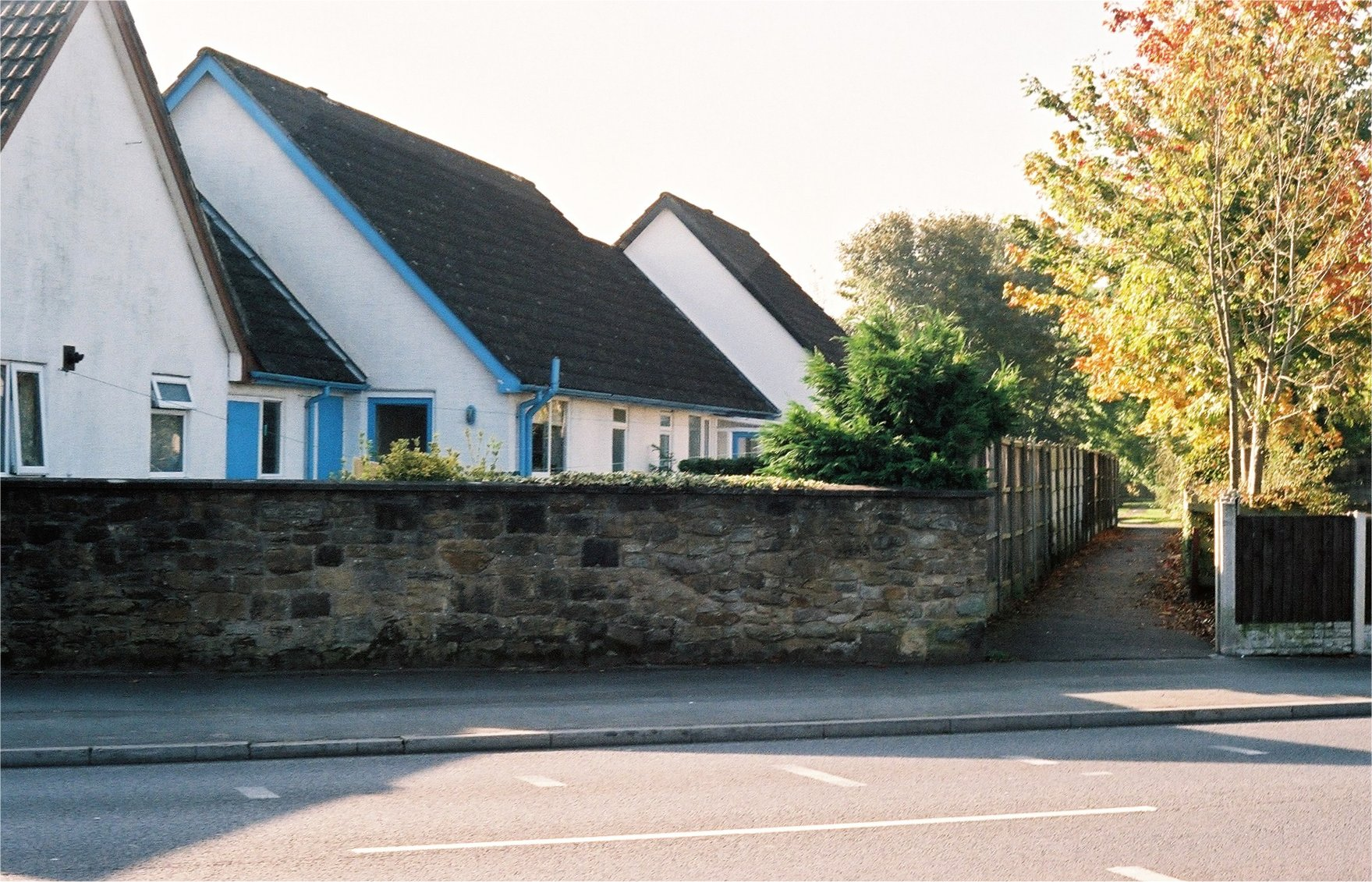 The site of the former Grimsargh railway station in Lancashire, England, in 2007. The footpath to the right follows the course of the original rail track.